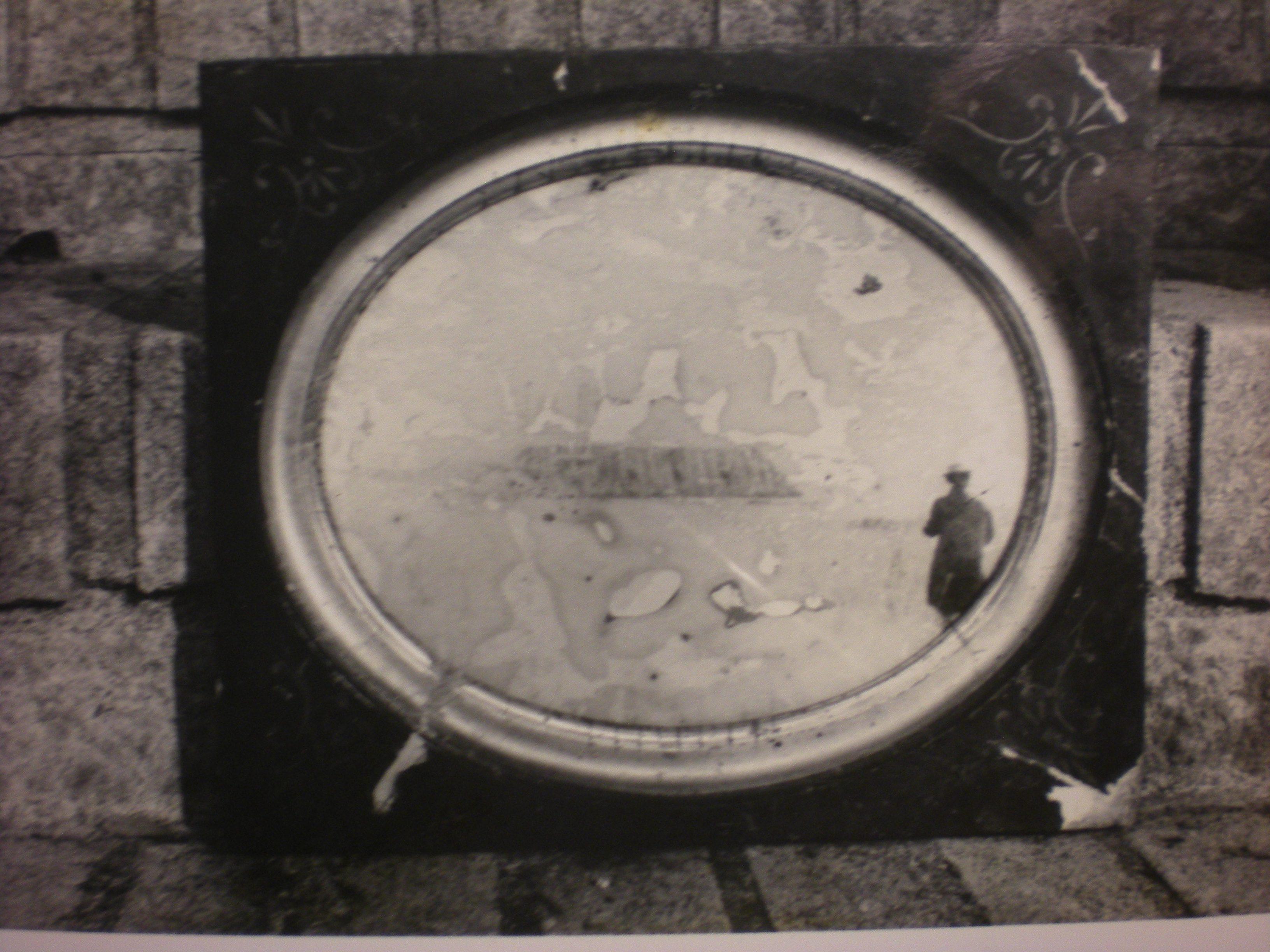 Only know photograph of the Civil War Ship "CSS GEORGIA"